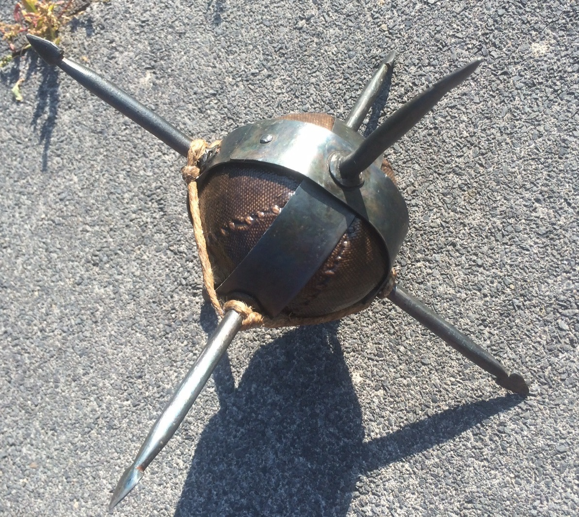 Rekonstructionof a fire ball with pikes.